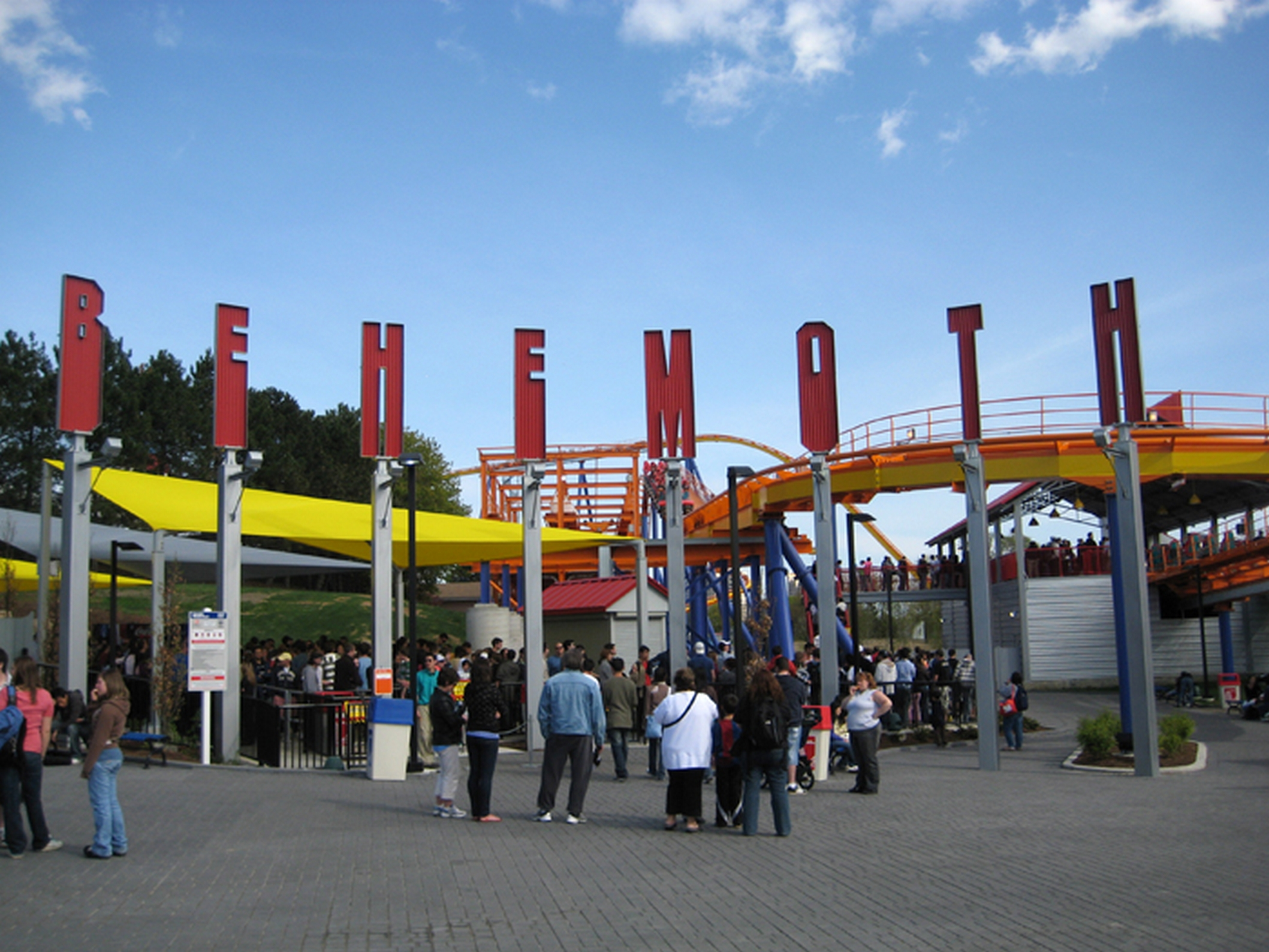 Behemoth , montagnes russes à Canada's Wonderland